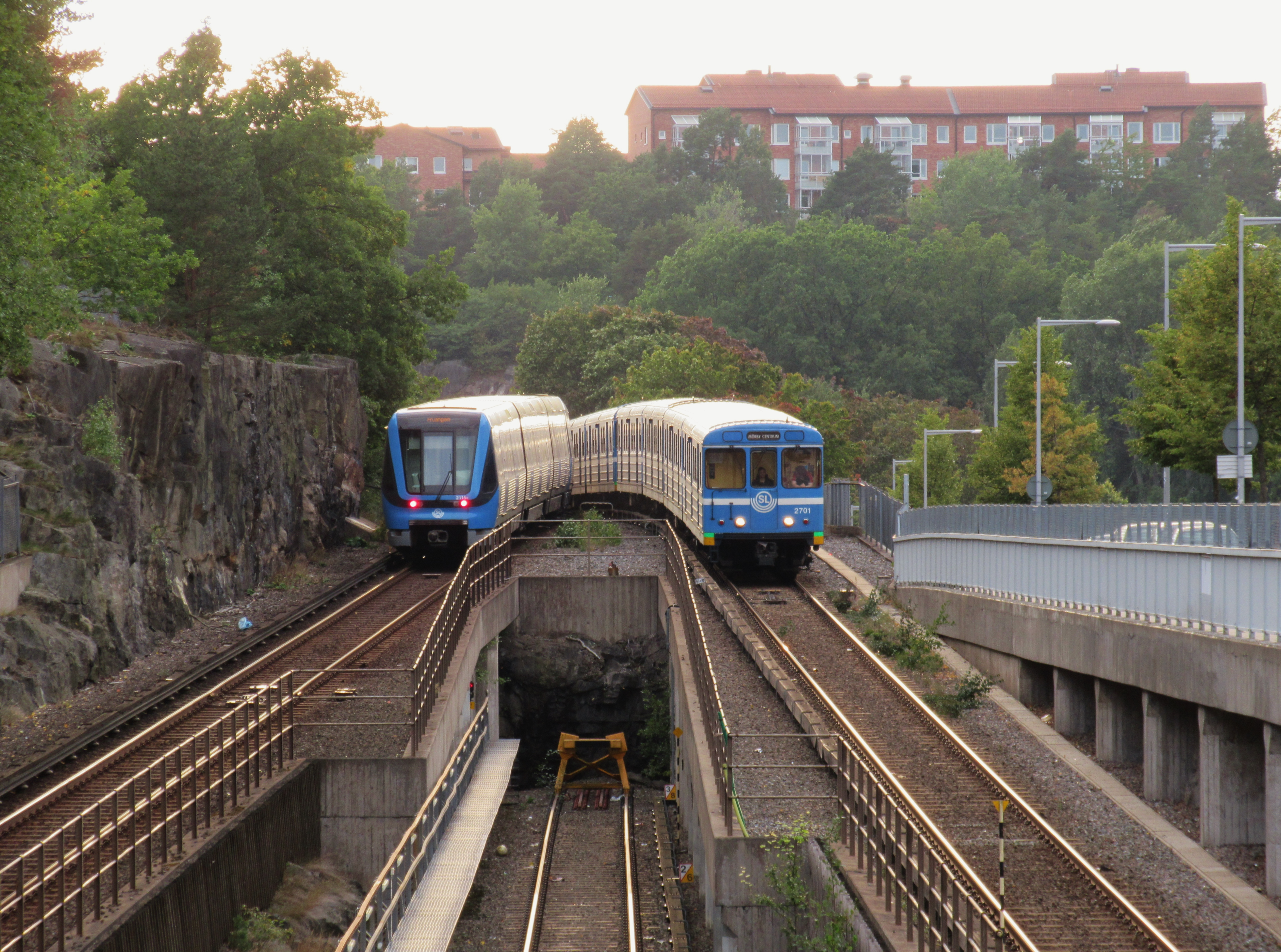 Stockholm Metro trains class C20 and C6 near Telefonplan, Stockholm